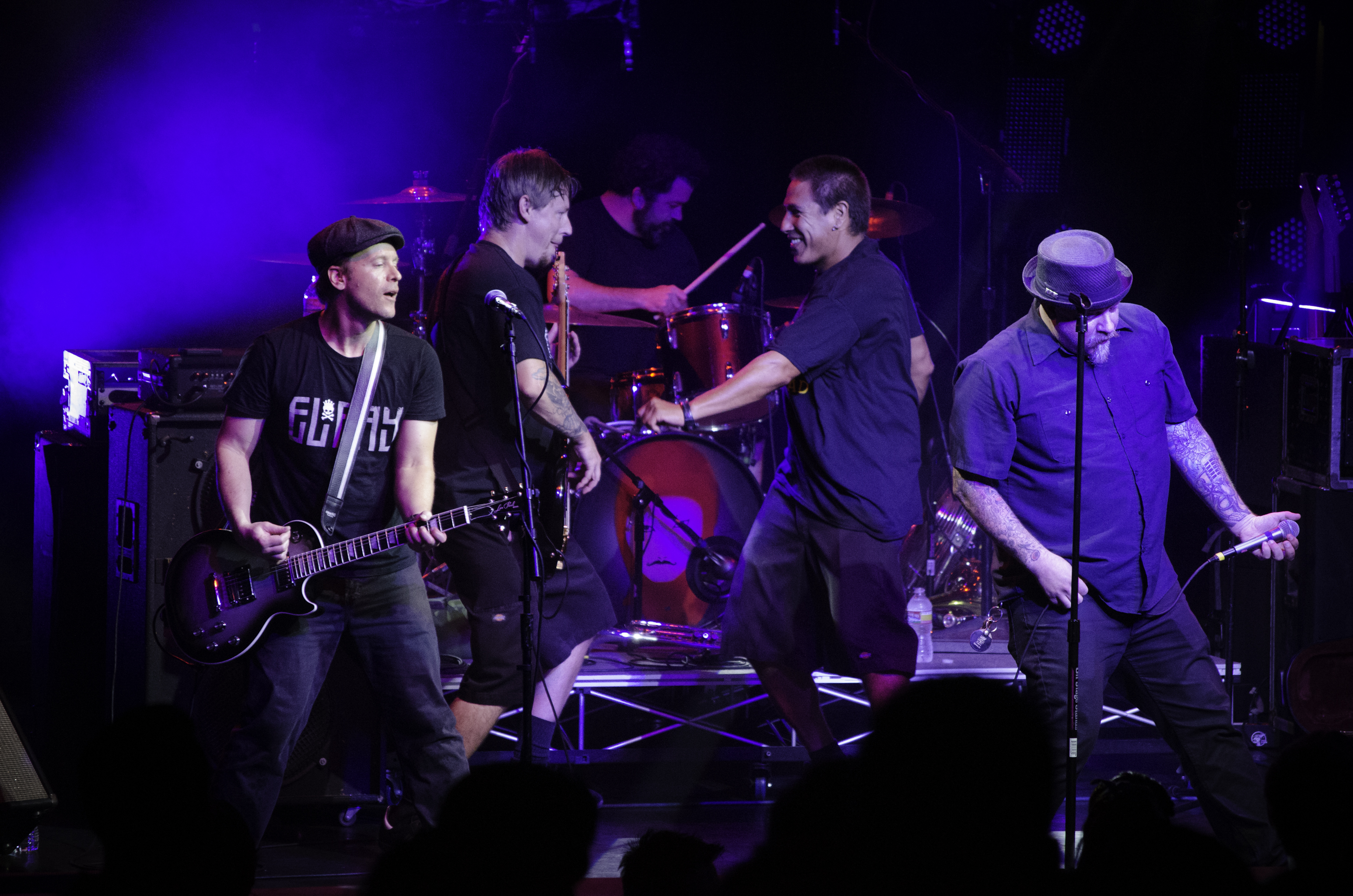 Buck-o-nine @ The Observatory -- SANTA ANA, CA